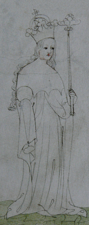 Margaret of Brabant